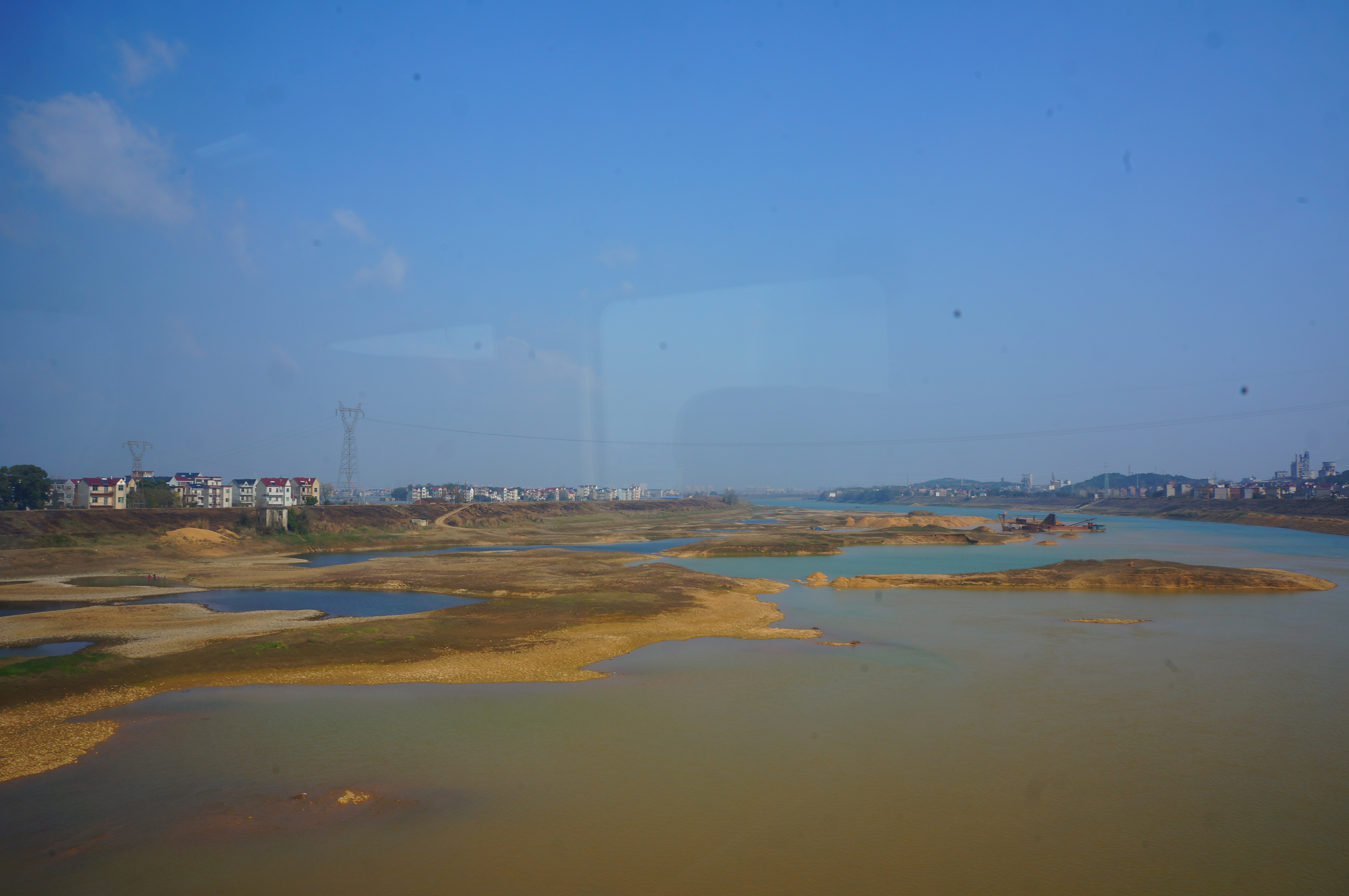 201612 Overview of Leping over Le'an River